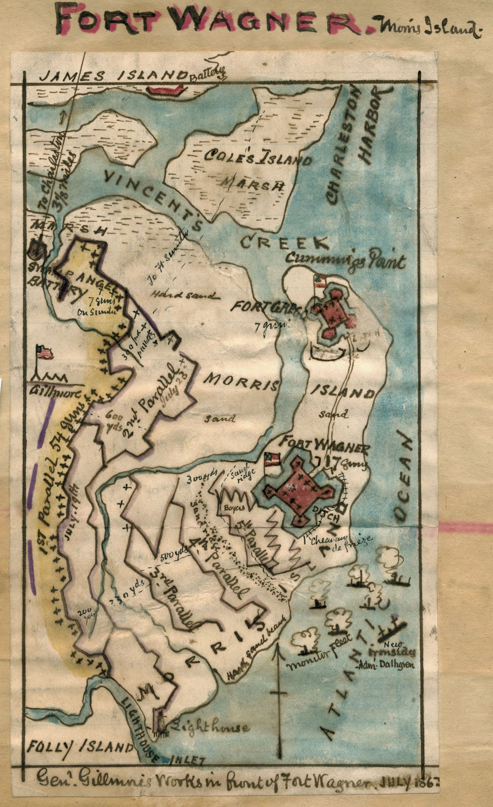 In July 1863, Union Generals Gillmore and Dahlgren hoped to take Fort Wagner, on Morris Island in Charleston Harbor, in order to gain a vantage point from which to launch an attack on the city of Charleston. Strongly defended, the first Union assaults (July 10th and 18th) resulted in extremely high casualties. Gillmore began formal siege operations and had reached to base of the fort by September 6th. The Confederate forces abandoned the fort during the night. This map includes Folly Island to the south of Morris Island, Charleston Harbor to the northeast and Coles Island to the north.